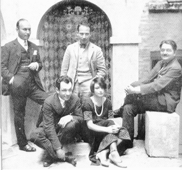 Portrait of Art Samuels, Charlie MacArthur, Harpo Marx, Dorothy Parker and Alexander Woollcott